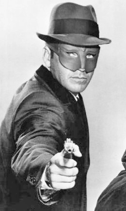 Photo of Van Williams as the Green Hornet and Bruce Lee as Kato from the television program The Green Hornet.